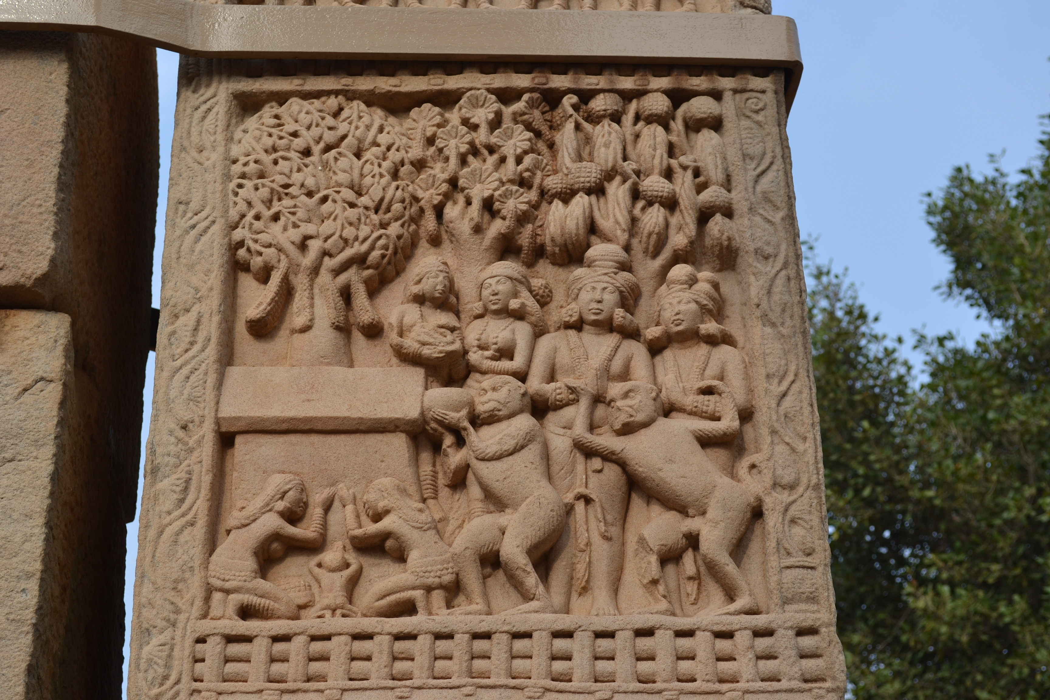 Carving showing worship